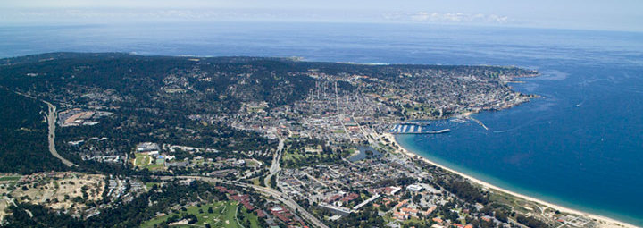 Aerial view of City of Monterey and the Monterey Peninsula — on the central California coast.